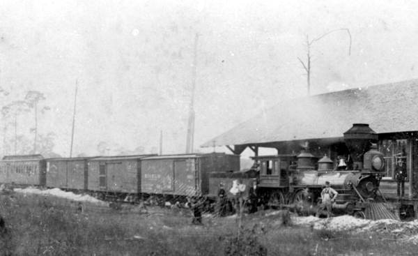 Live Oak & Gulf Railway Company train at the depot - Luraville, Florida